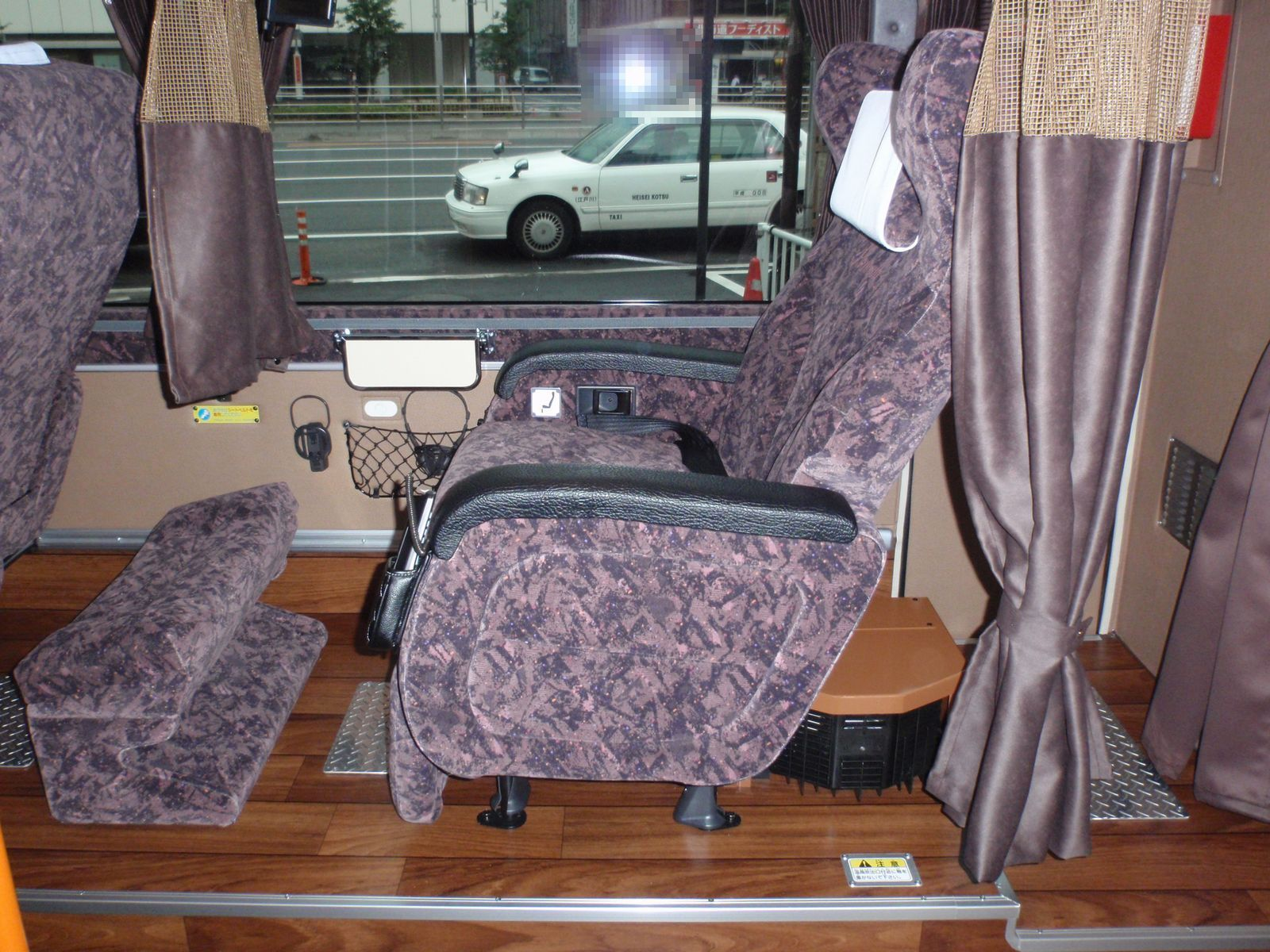 Premium Seat of JR Bus Kanto(Reclining off)